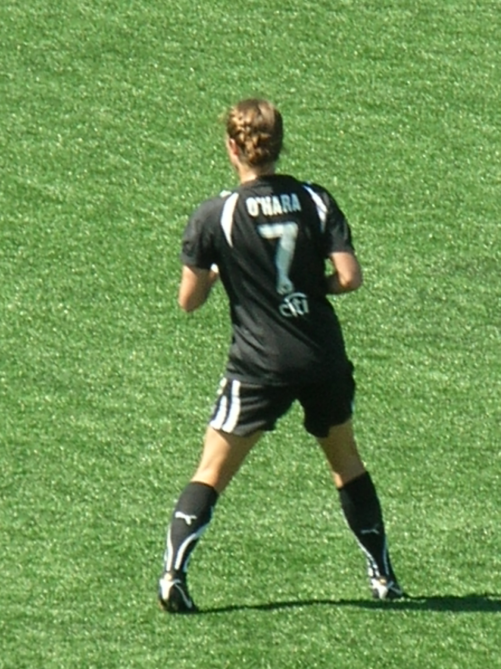 FC Gold Pride forward Kelley O'Hara at the 2010 WPS Championship at Pioneer Stadium in Hayward against the Philadelphia Independence. The Gold Pride won 4-0.